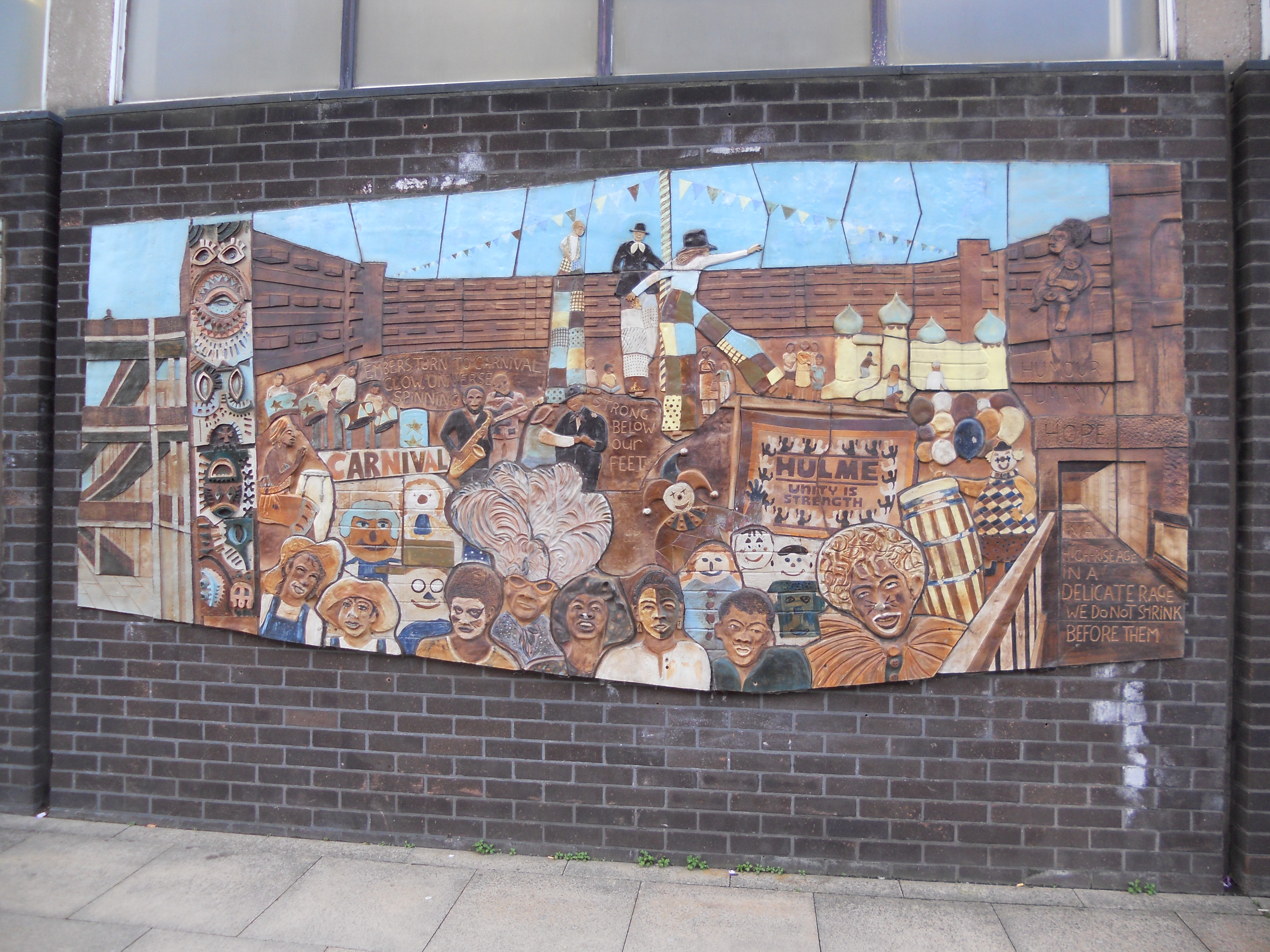 Mural on the outside of Hulme Library showing a Hulme Carnival against a background of one of the famous Crescents.